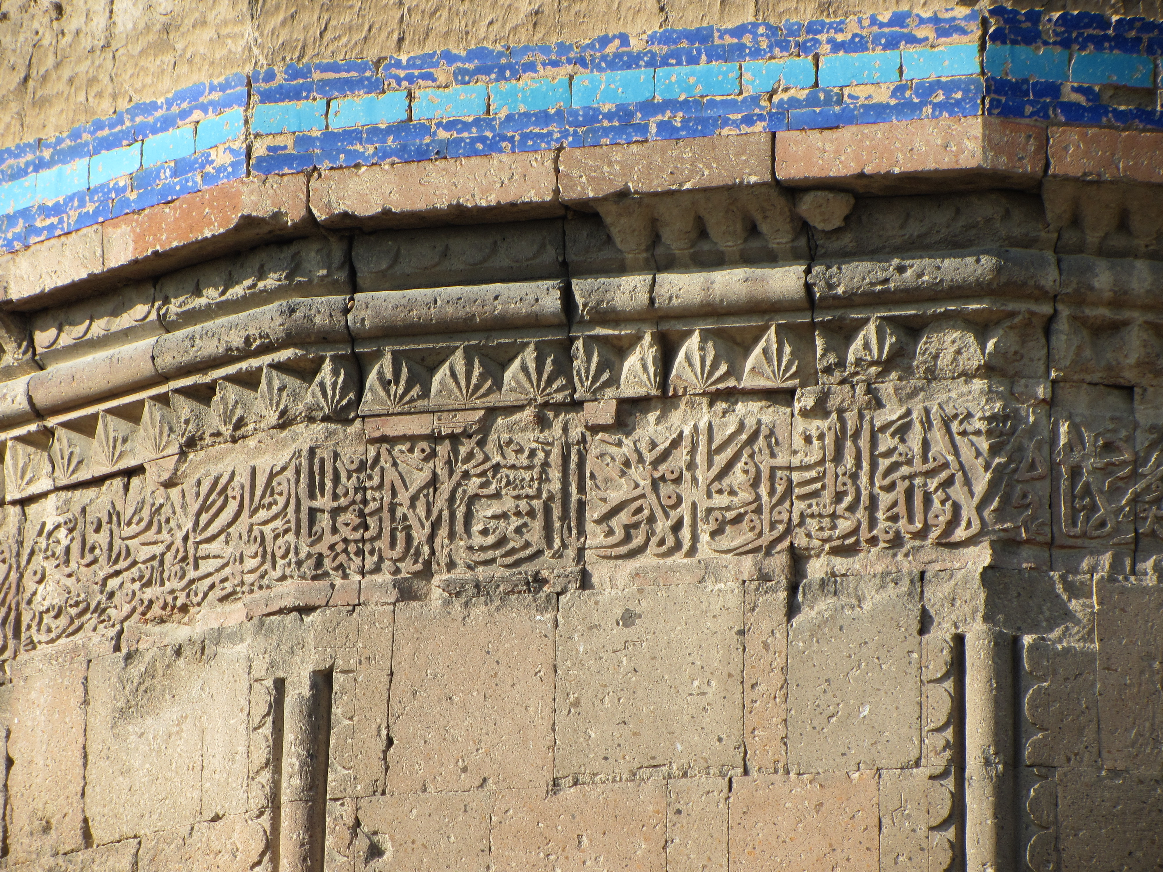 The Argavand Funerary Tower (Qara Qoyunlu mausoleum) built in 1413. It is located in the village Argavand near Yerevan. Fragment of inscription.